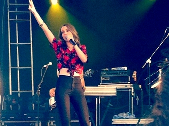 American singer-songwriter Bridgit Mendler performing on Big Red Music Festival in Charlottetown, Canada - June 28, 2014. Photo by Elizabeth Scott (Lizz Directioner)